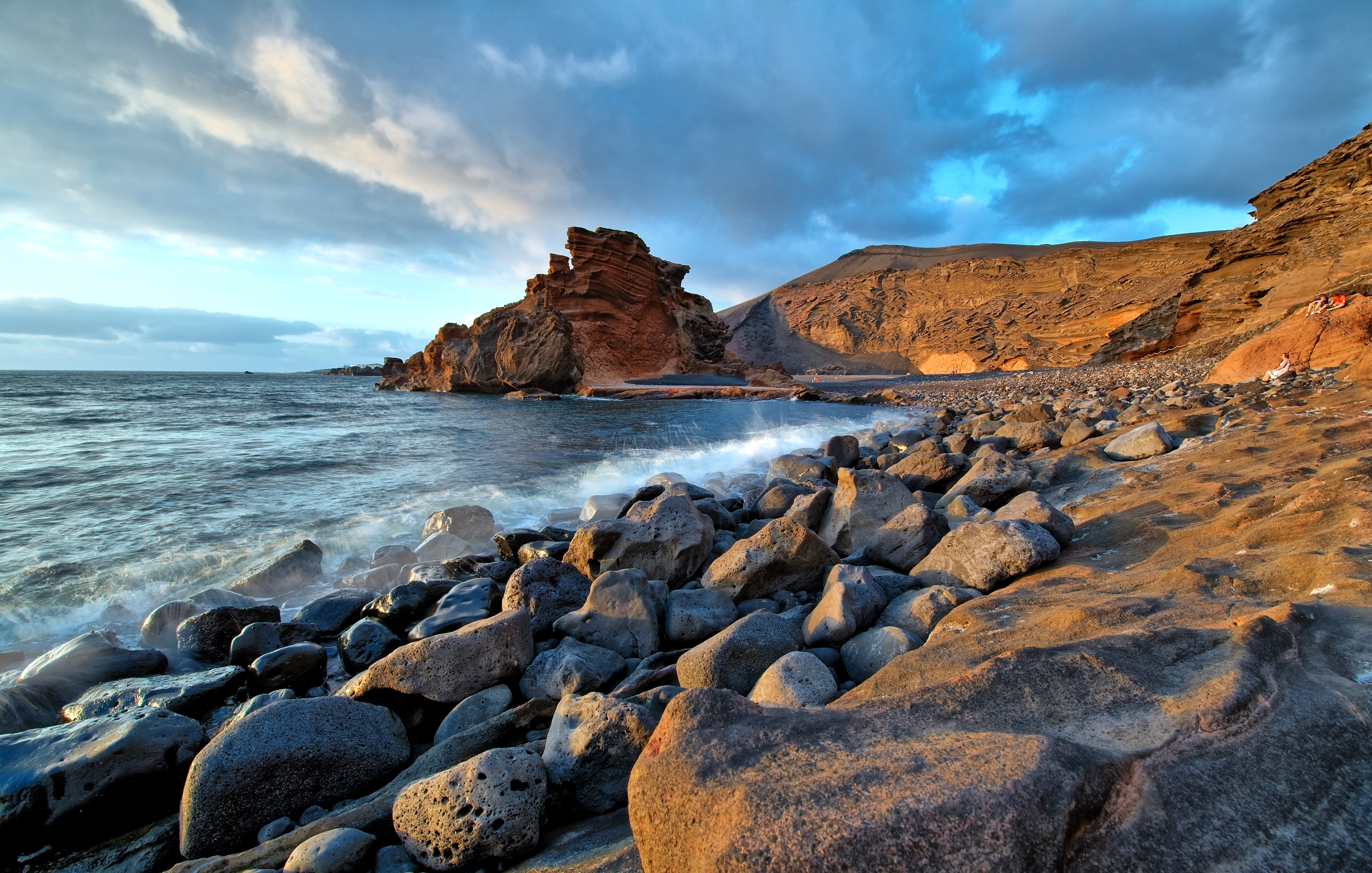 El Golfo Beach in Lanzarote, Canary Islands (Spain).